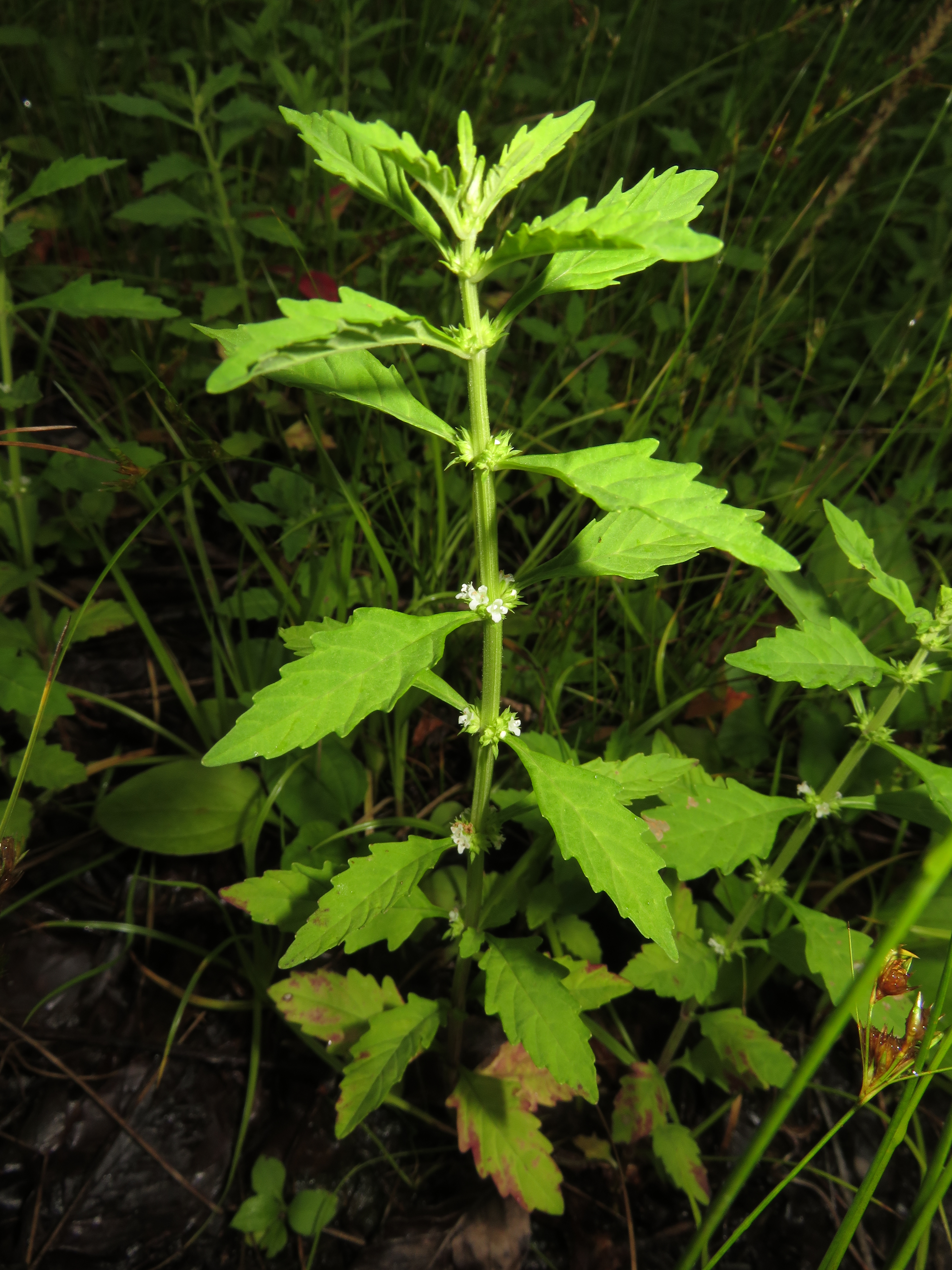 Lycopus cavaleriei, Aizu area, Fukushima pref., Japan